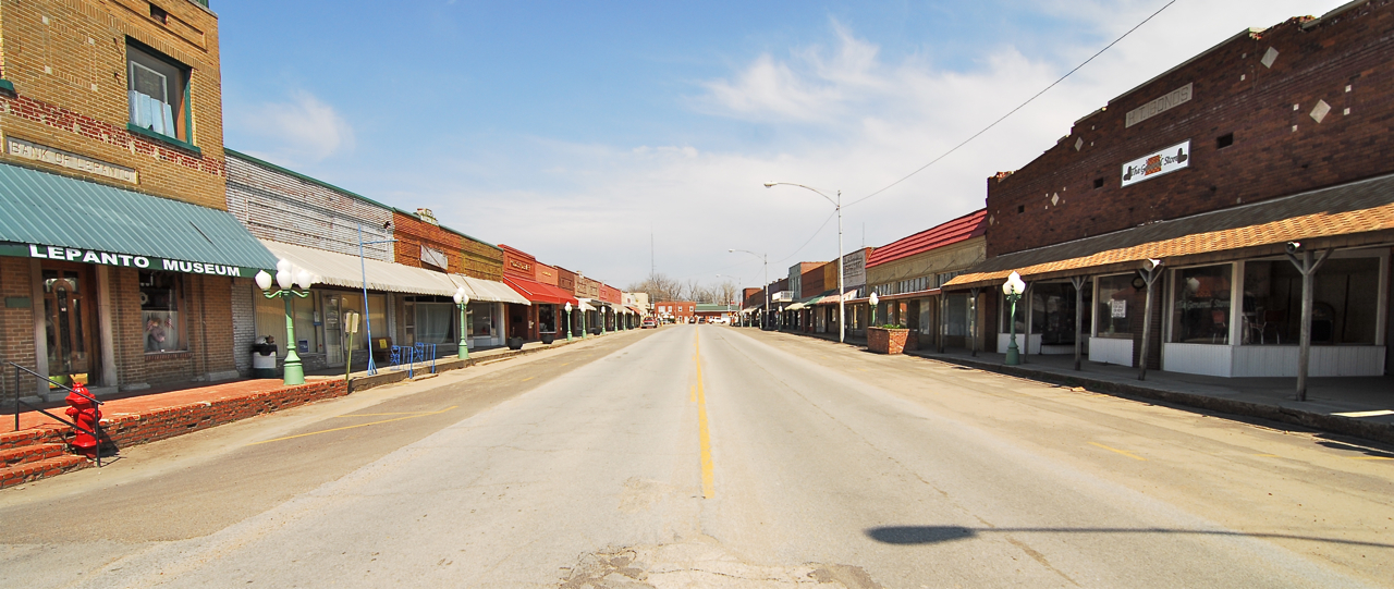 Downtown Lepanto